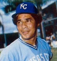 Professional baseball player Amos Otis